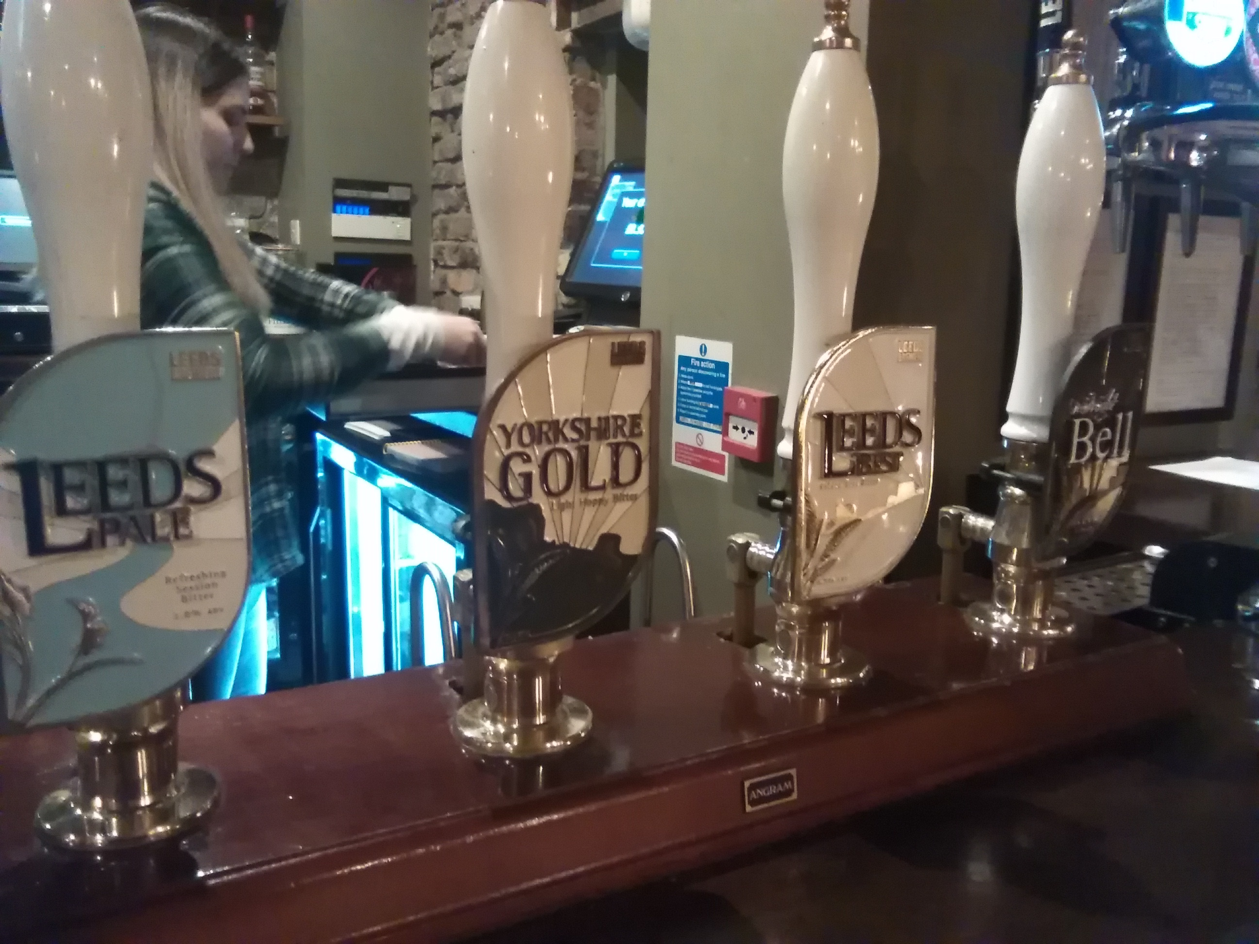 Leeds Brewery pumps at the Lamb and Flag, Leeds, West Yorkshire. Taken on the evening of Tuesday the 14th of January 2020.